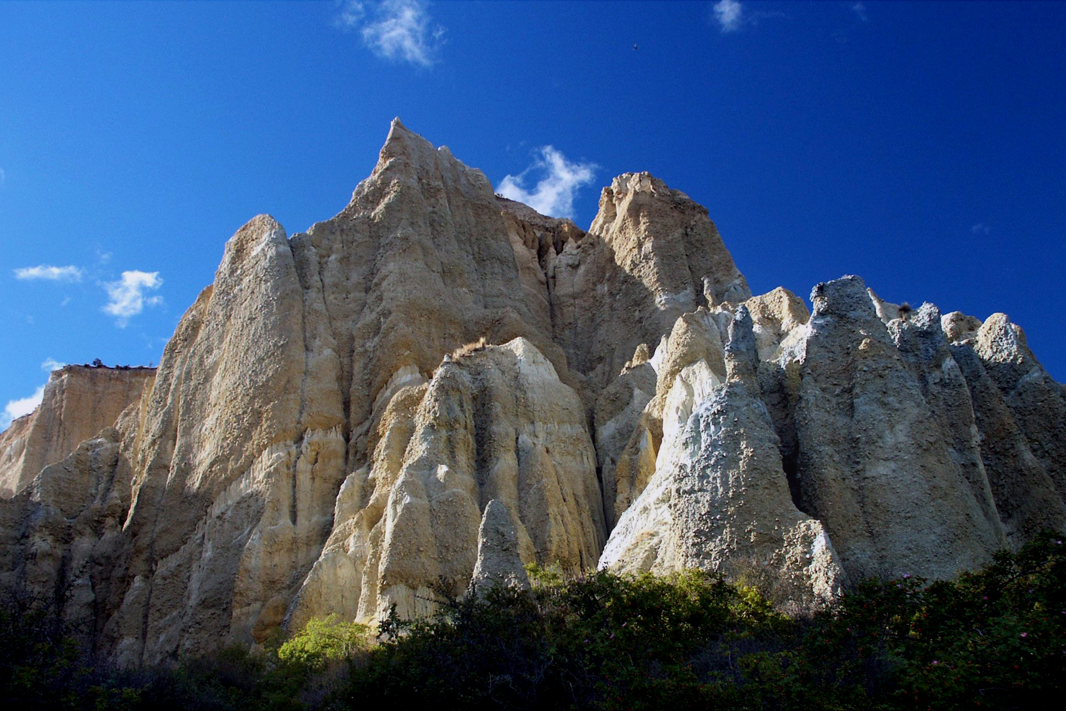 The Clay Cliffs are huge sharp pinnacles and ridges with deep, narrow ravines separating them. The Clay Cliffs are made of layers of gravel and silt, deposited by rivers flowing from glaciers existing 1-2 million years ago. Compared to the nearby mountains, which are 250 million years old, the Clay Cliffs are relatively new. Today the gravel and silt layers can be seen as sloping bands as the strata have been tilted since their deposition 1-2 million years ago.